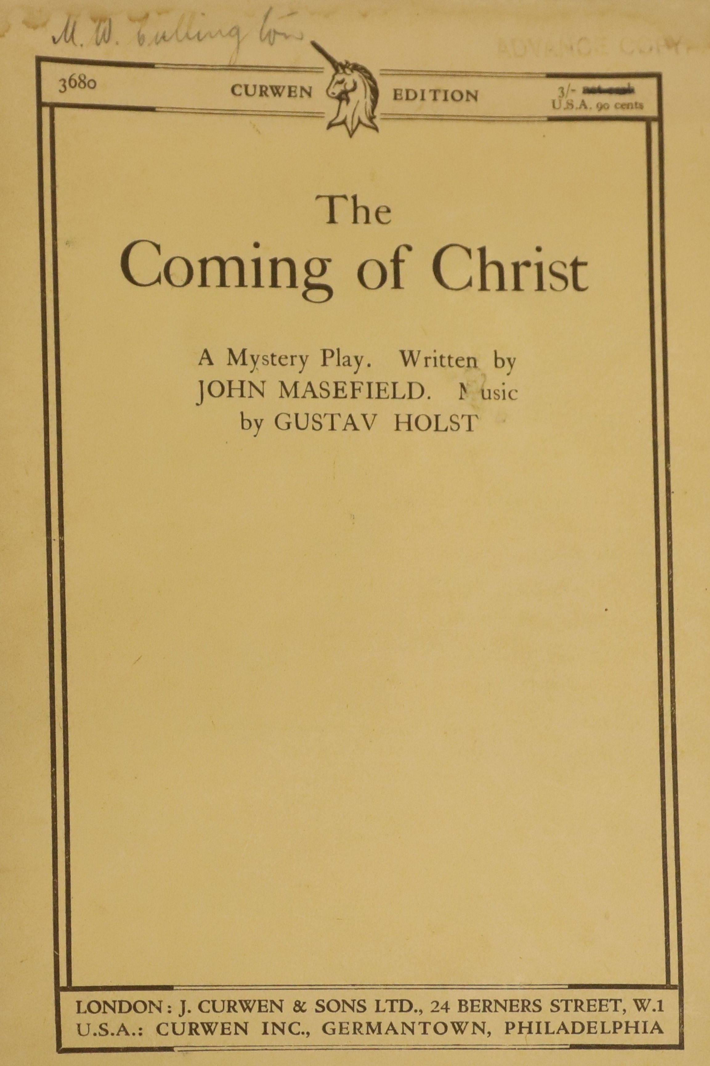 The Coming of Christ, vocal score 1928, cover